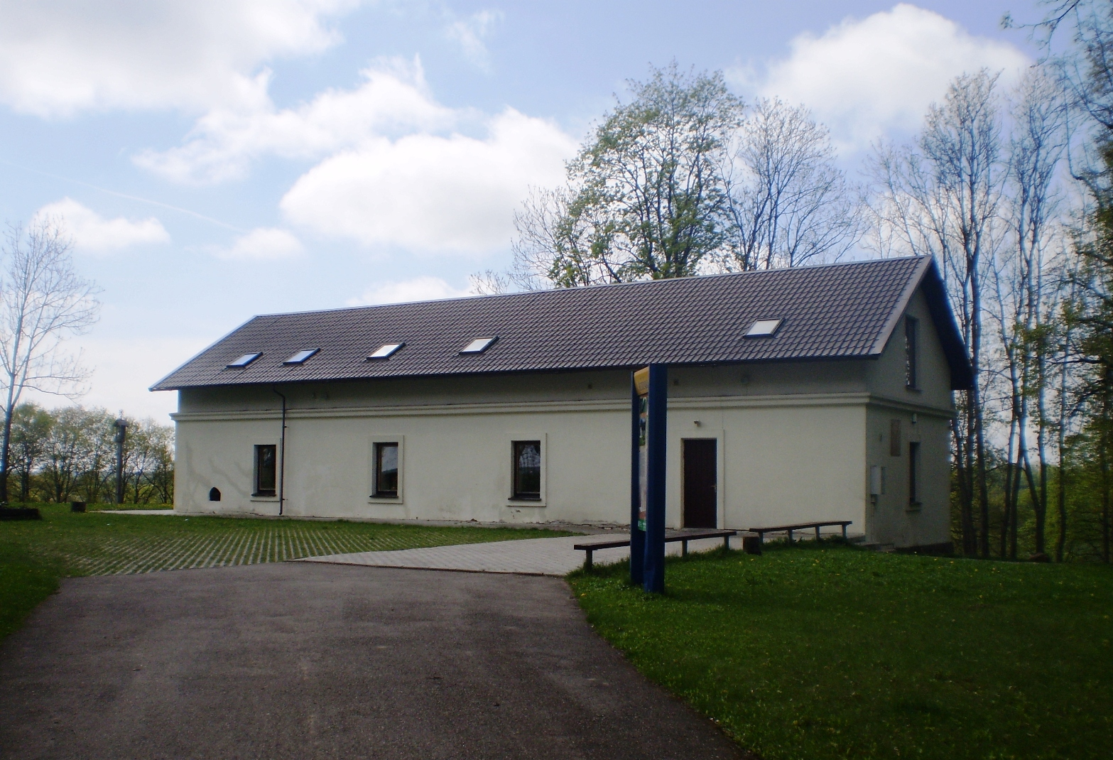 House-museum of Czeslaw Milosz, Šateniai, Kėdainiai municipality